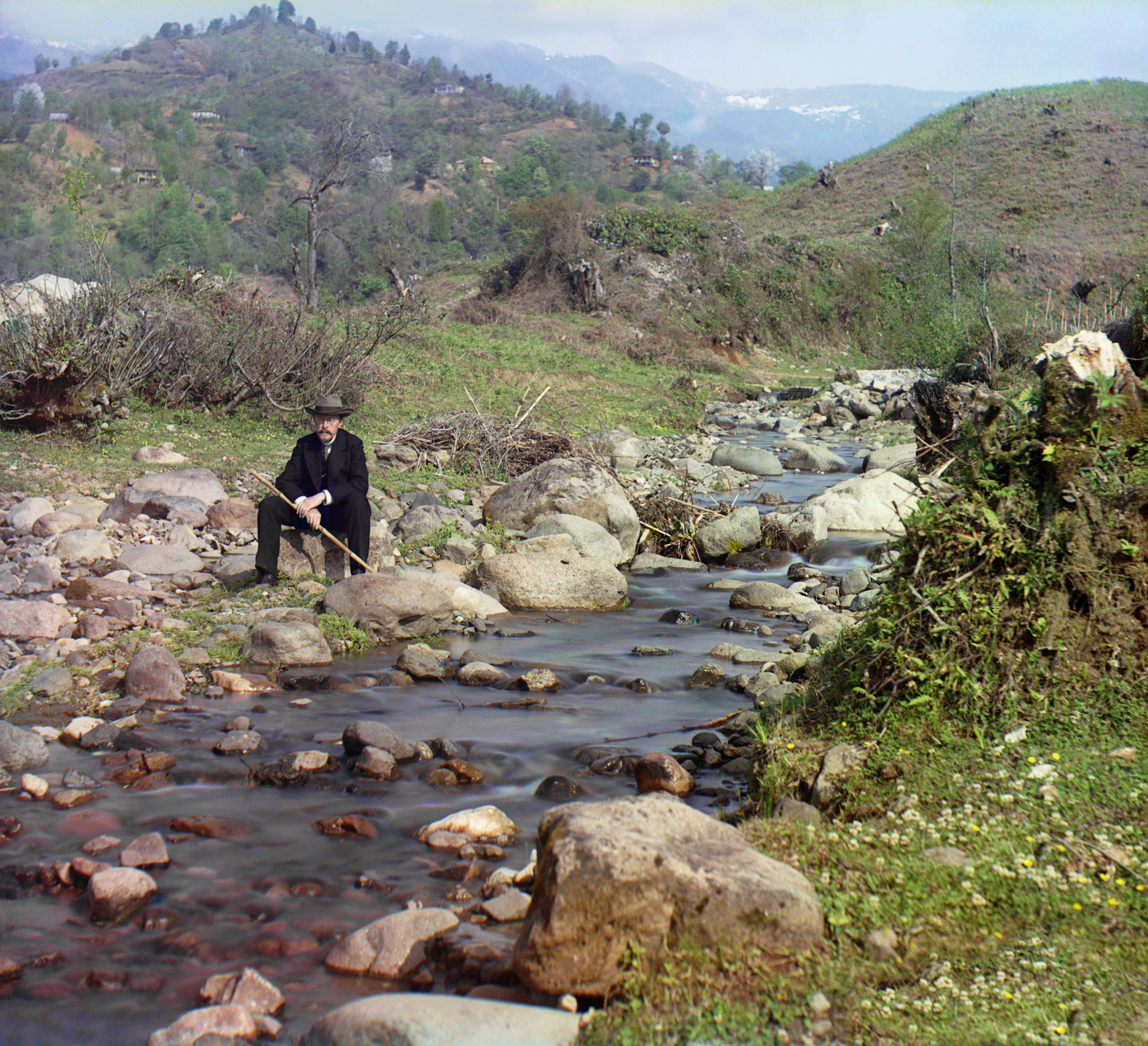 Self-portrait of Sergei Mikhailovich Prokudin-Gorskii. Early color photograph from Russia, created by Sergei Mikhailovich Prokudin-Gorskii as part of his work to document the Russian Empire from 1904 to 1916.